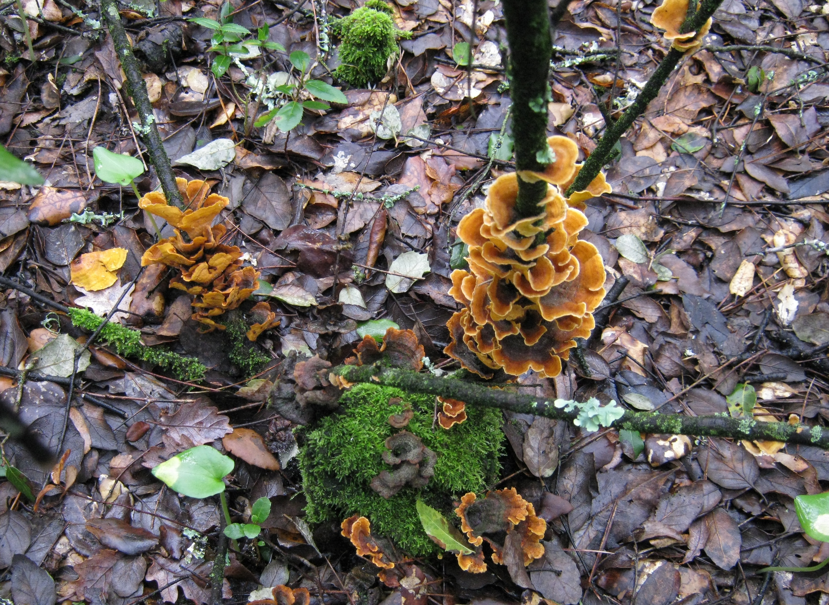 Stereum ostrea (Blume & T. Nees) Fr. Image location: Parque de Monsanto, Lisboa, Portugal Recognized by sight For more information about this, see the observation page at Mushroom Observer.